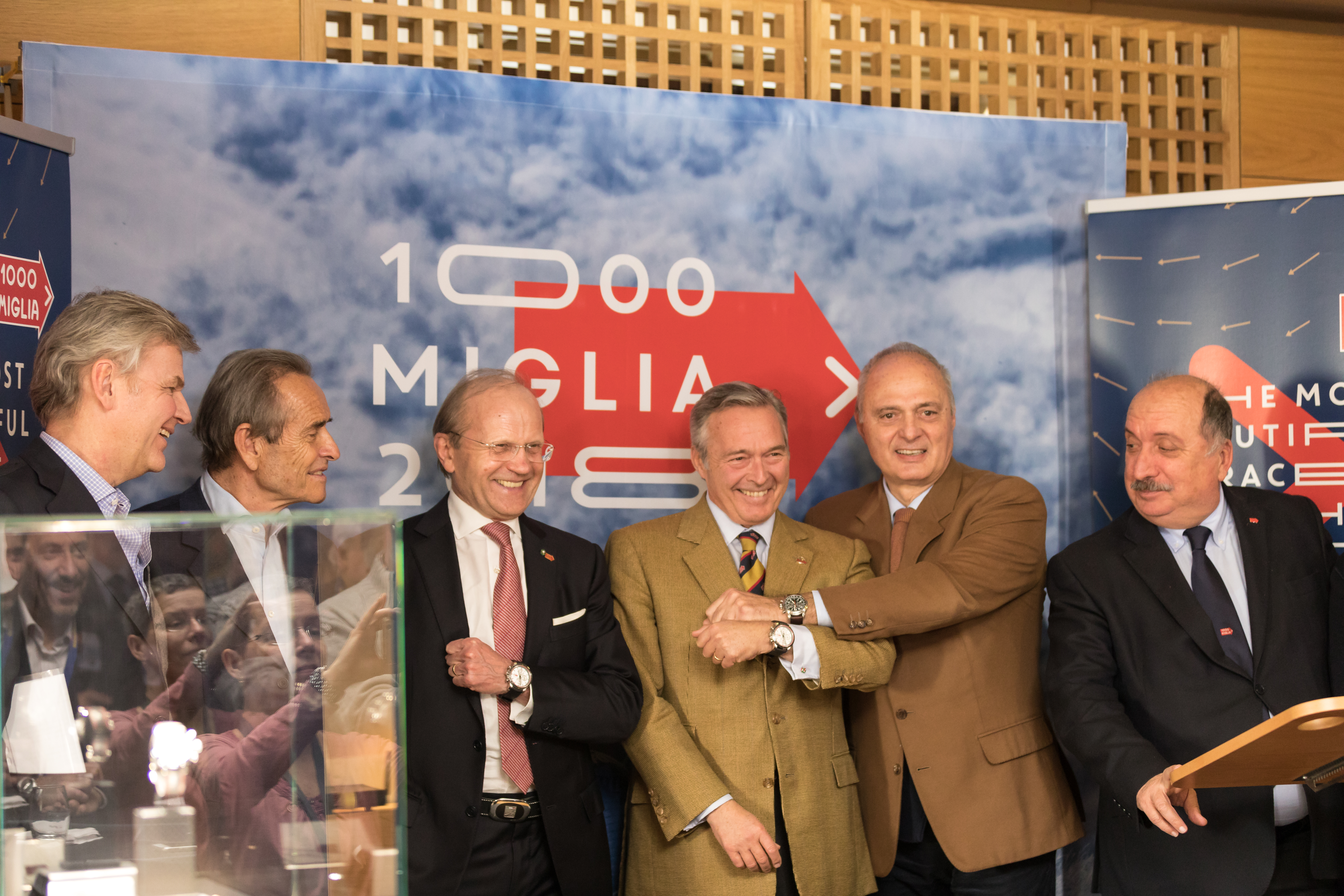 Mille Miglia 2018 press announcement